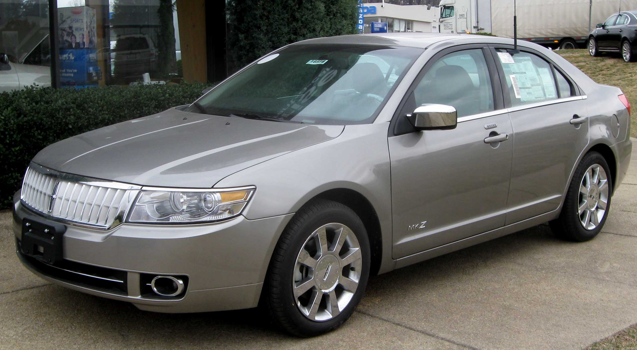 2009 Lincoln MKZ photographed in Silver Spring, Maryland, USA.